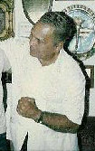 Cropped version of photograph of Pedro Montanez at Montanez's house in 1985.